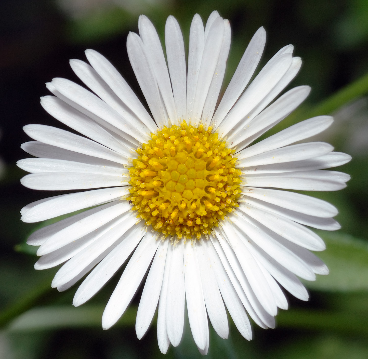 This image shows a Santa Barbara Daisy (Erigeron karvinskianus).